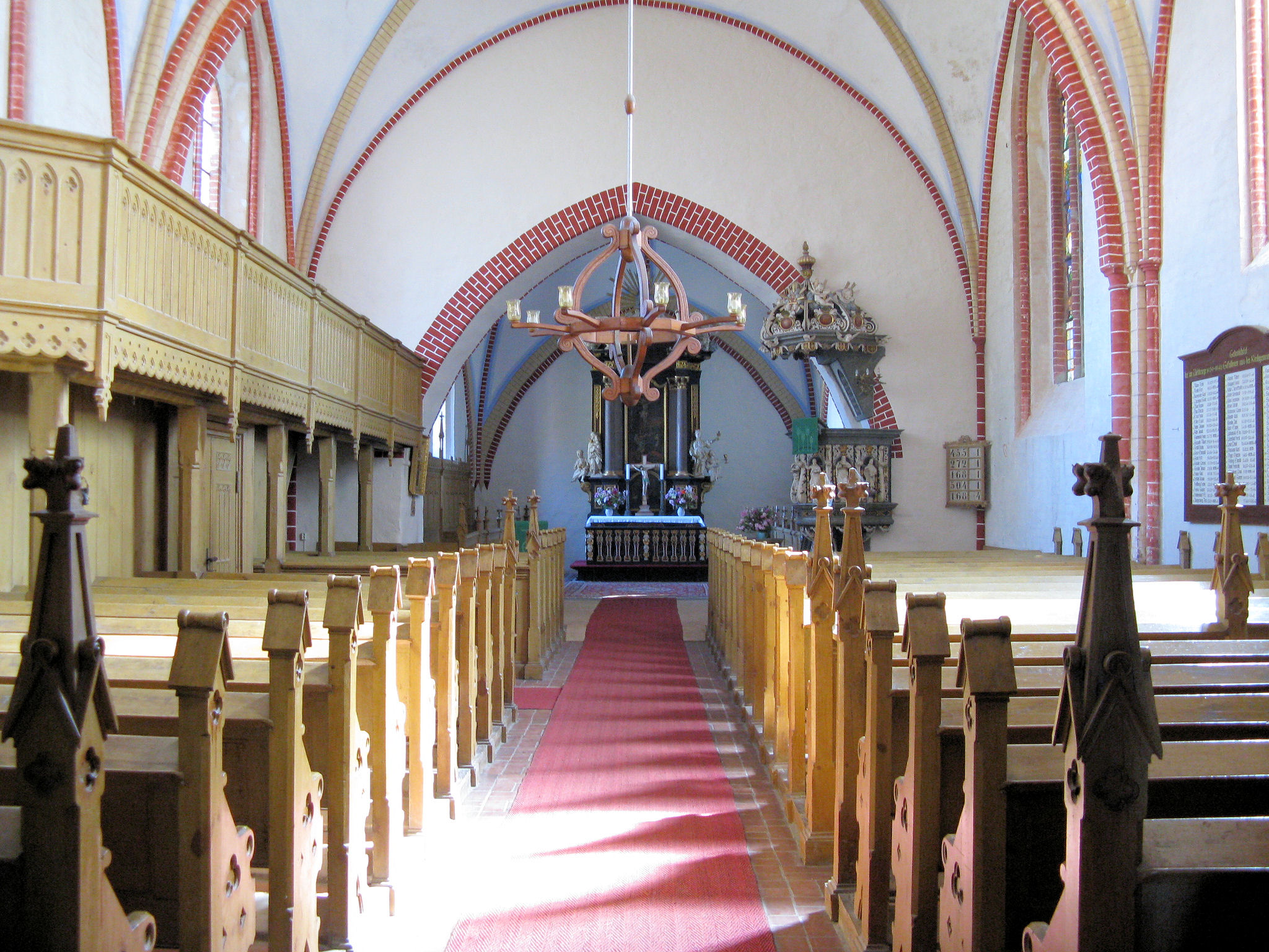 Church in Wattmannshagen, disctrict Güstrow, Mecklenburg-Vorpommern, Germany